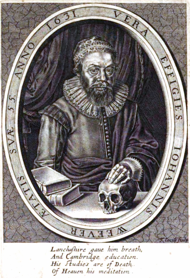 Picture of John Weever from his book 'Ancient Funeral Monuments'